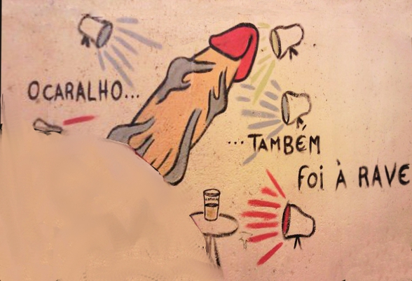 Graffiti drawing in Portugal, unknown location. Inscription says "O caralho... também foi à rave"